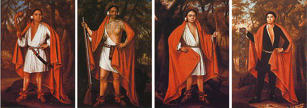 4 images from Library and Archives Canada of 4 Mohawk Kings